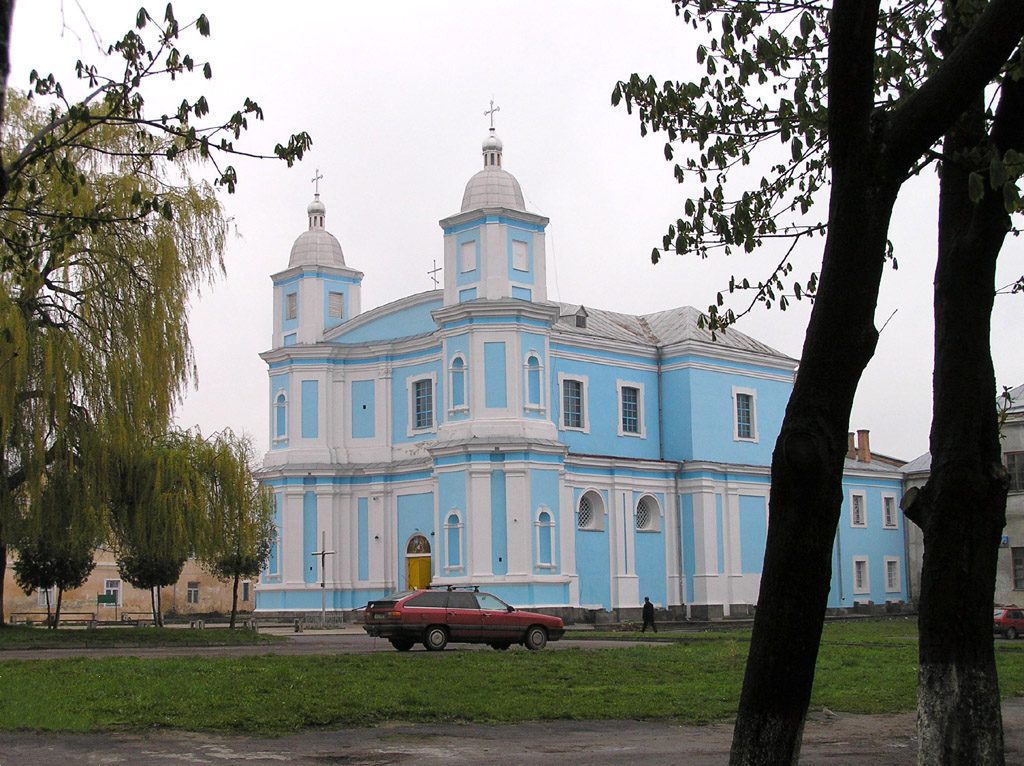 A Jesuit church in Vladimir-Volynsky (mid-18th century)